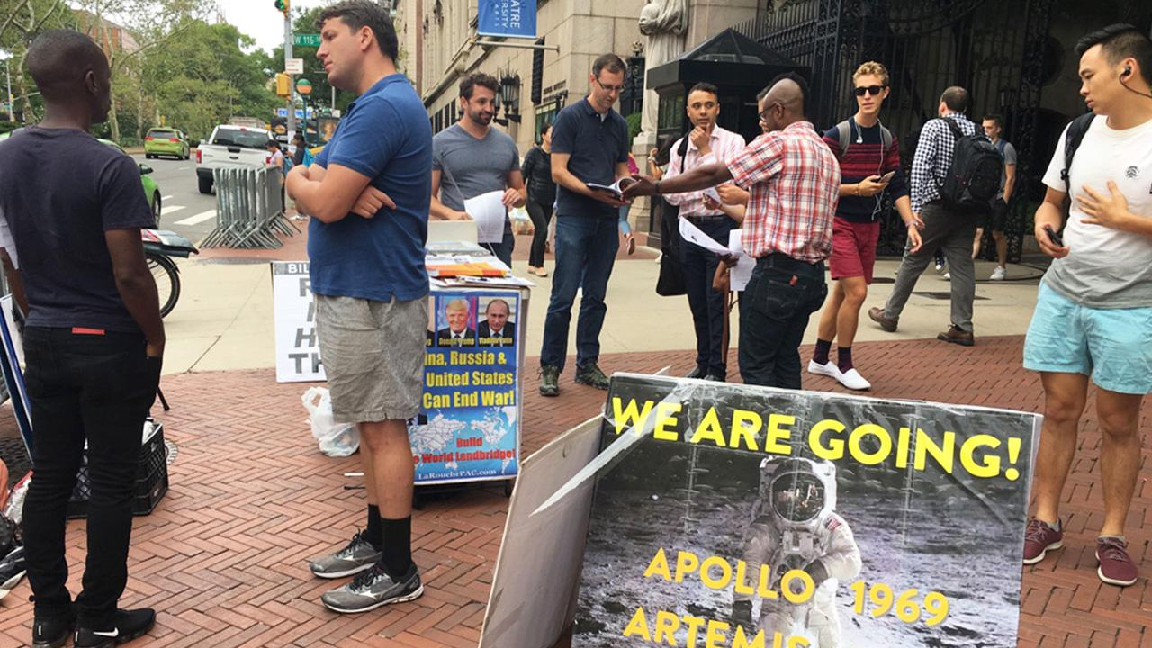 A picture I took back in June of the LaRouche members I ran into in New York City